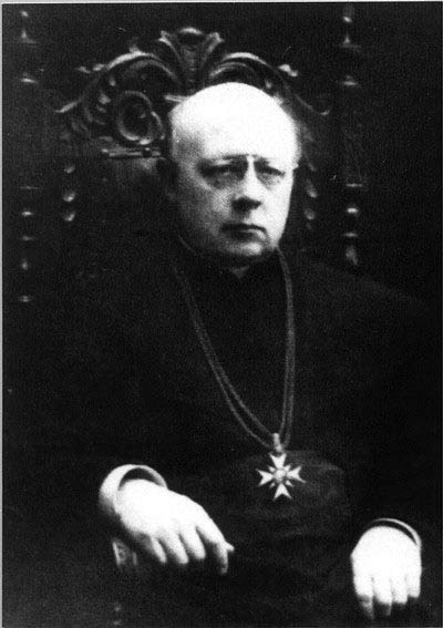 Konstanty Romuald Budkiewicz